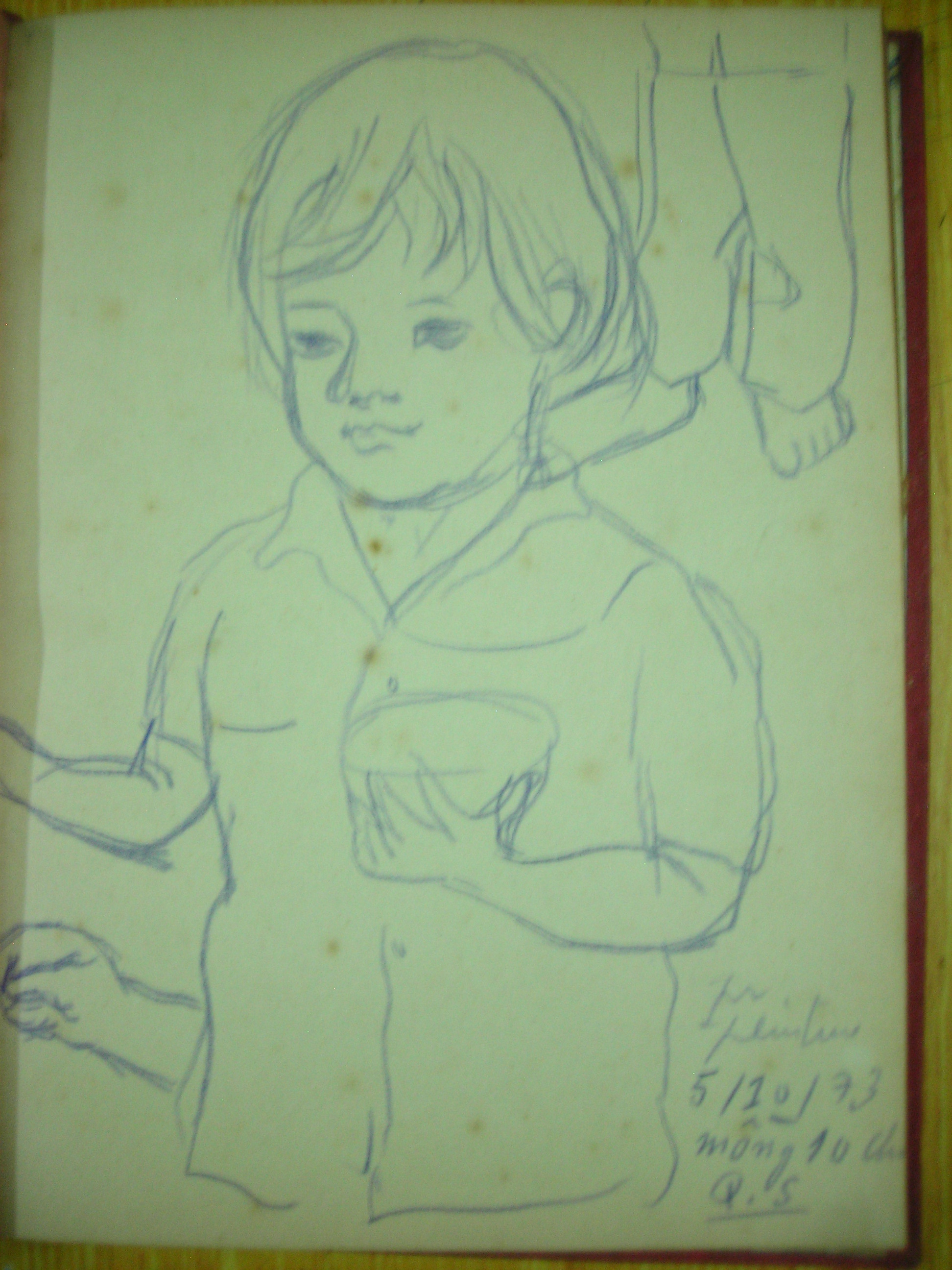 This photo is taken from the original sketch of family's collection